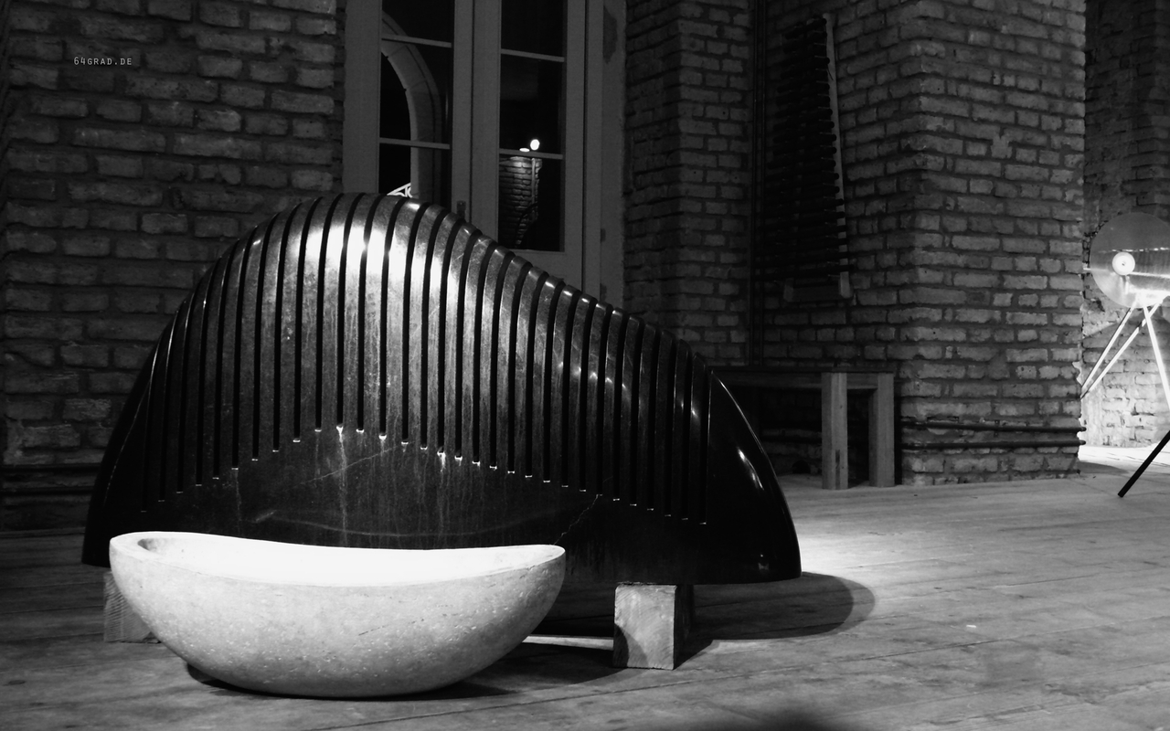 Lithophone in Freudenberg Palace, Wiesbaden, Name: Orca I, Artist: Hannes Feßmann, Year: 2007